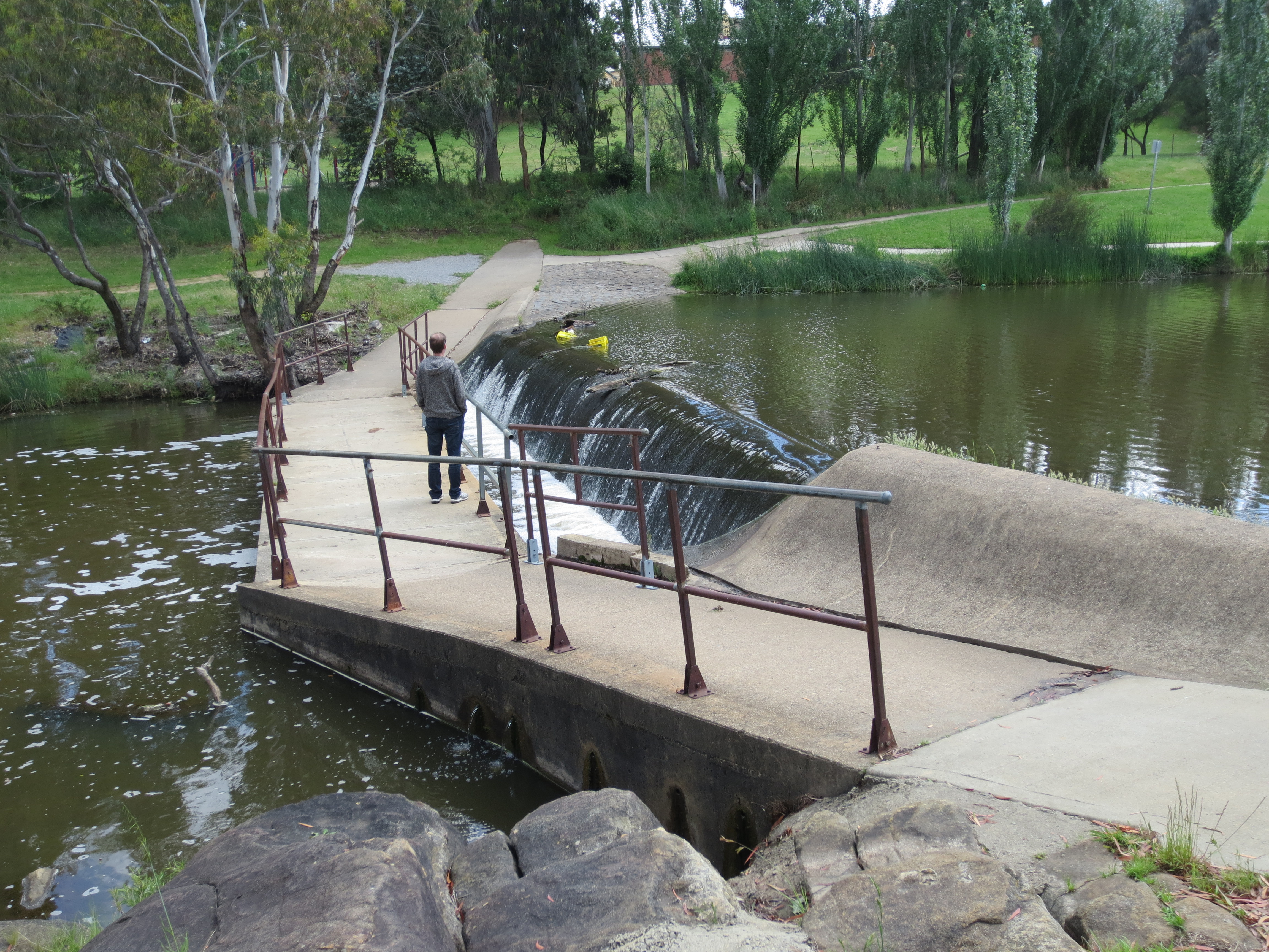 Yass River walkway crossing in Riverbank Park Yass showing culvert and weir